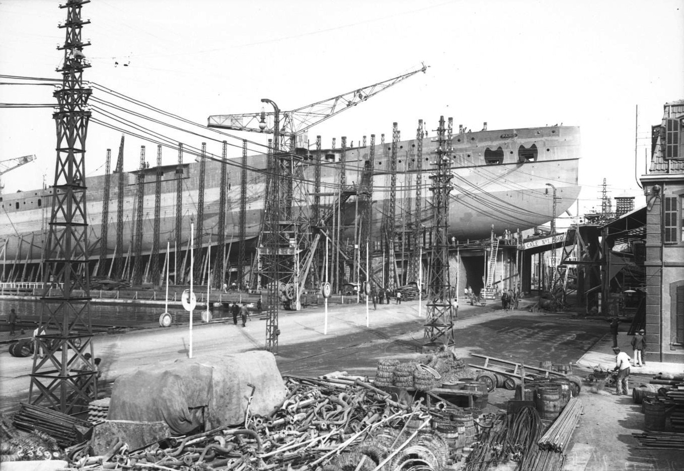 Battleship Paris in Toulon harbour